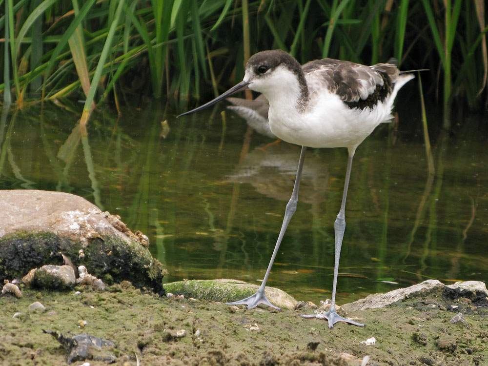 Juvenile Avocet (Recurvirostra avosetta), Pensthorpe zoo, Norfolk, UK